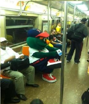 Wally is 'Behind Enemy Lines' in NYC (Yankee Territory) riding the Subway to Times Square with MLB